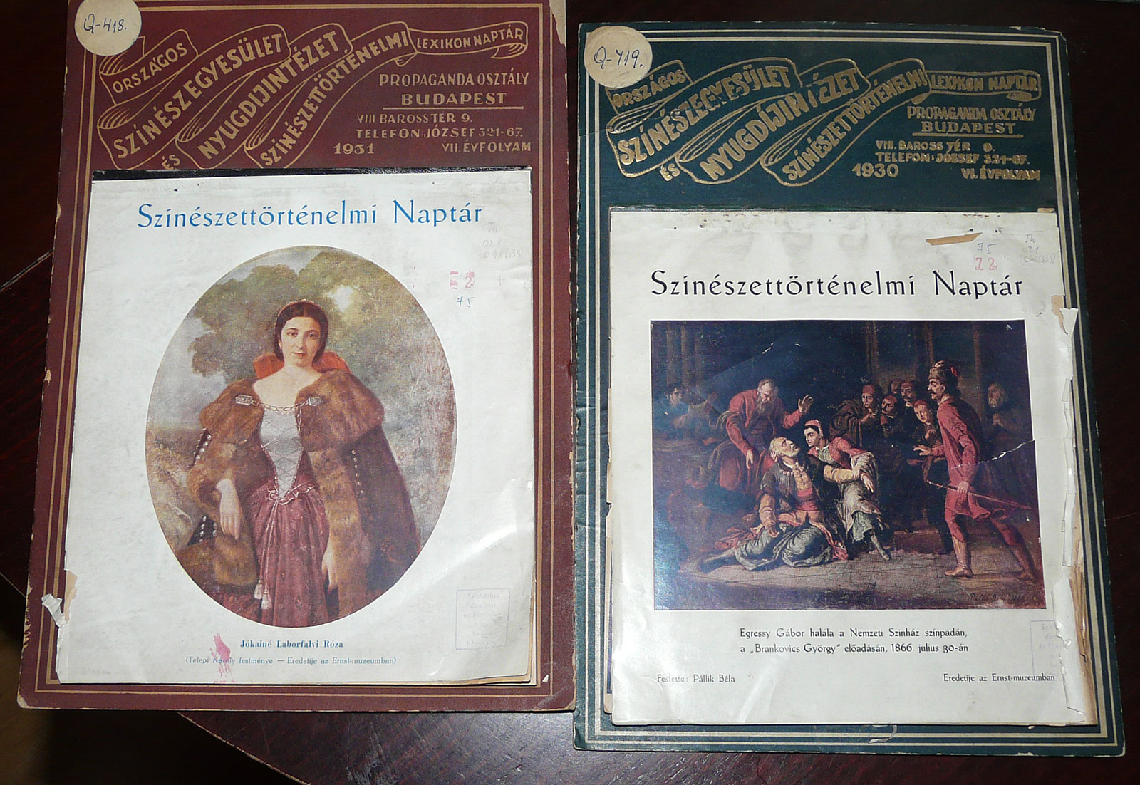 The Museum and Institute of Theatre history, Budapest, Hungary